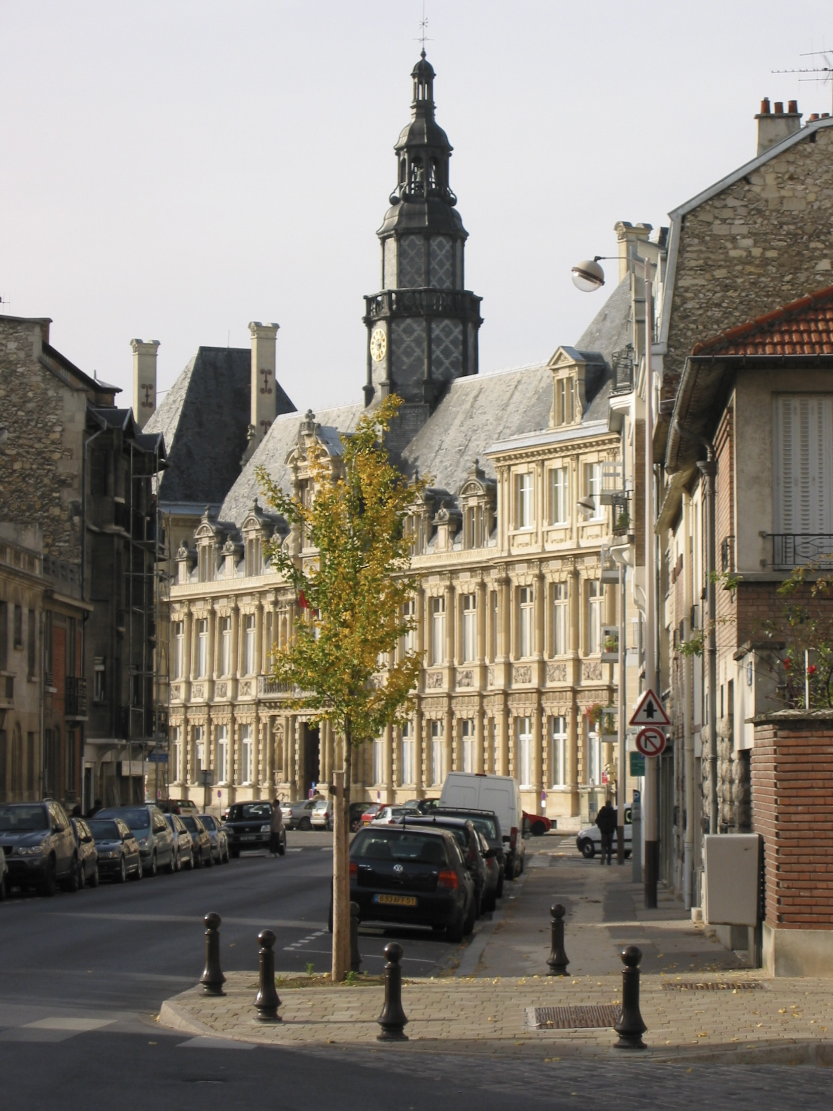 Town hall of Reims (France).